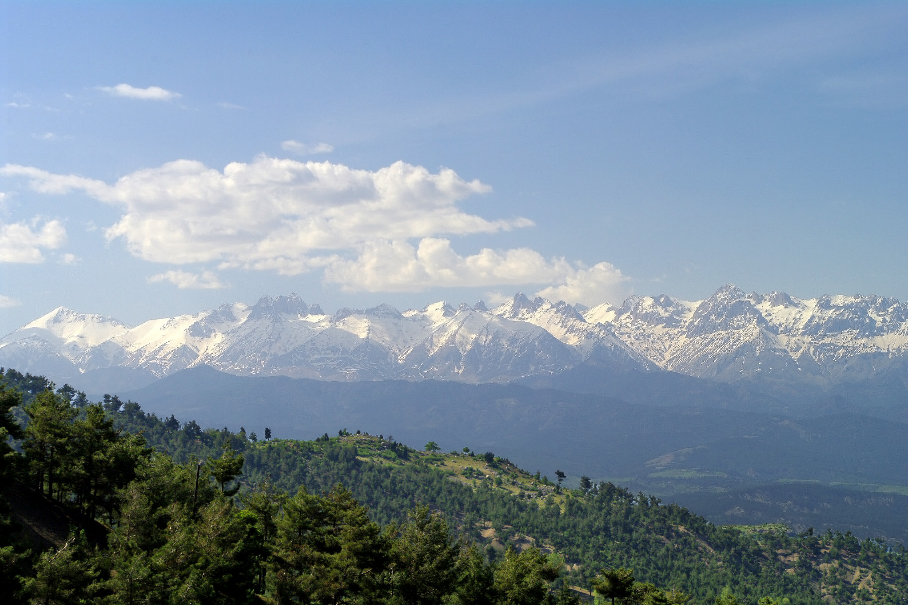 A view of Aladağlar Mountains from Aladağ town in Adana, Turkey.